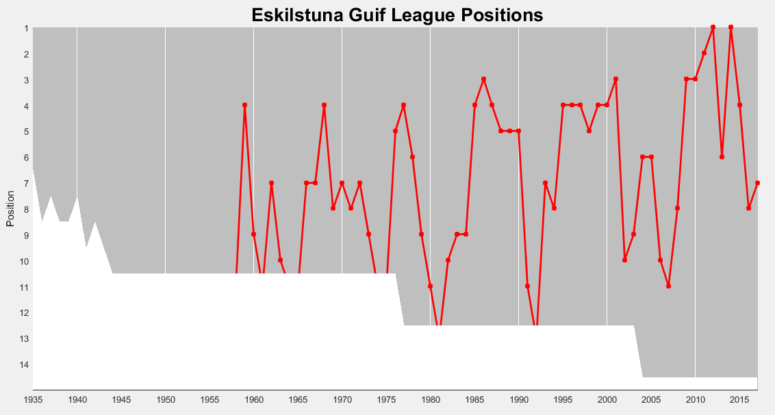 Eskilstuna Guif positions in the top division. The grey area denotes the number of teams in the top division. For split seasons, the autumn positions are shown when the team did not play in the top division in the spring season.